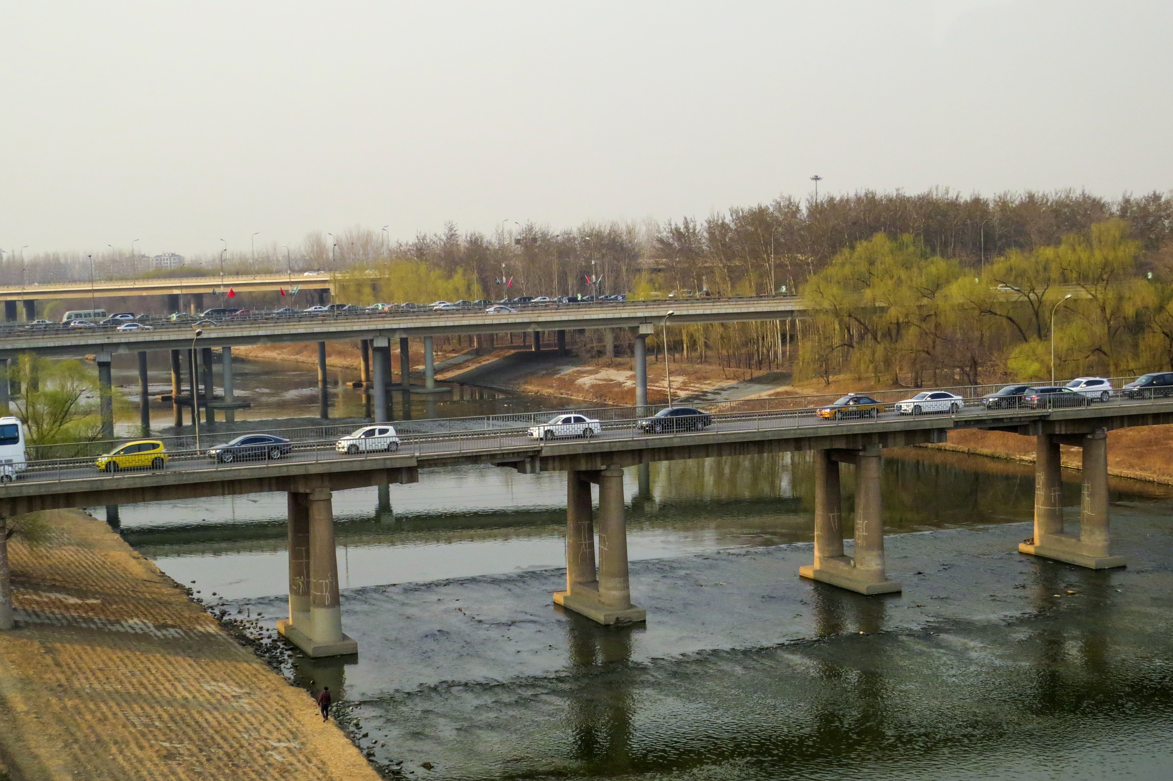 Taken from an Airport Express train as there was traffic control on the airport expressway due to the visit of King Salman of Saudi Arabia.